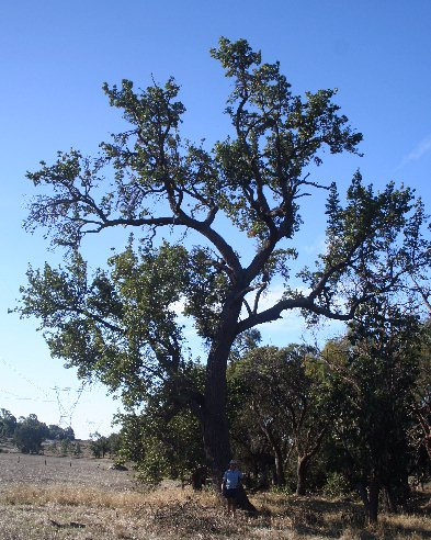 Exceptionally large tree of Banksia ilicifolia on farm near Weroona, WA